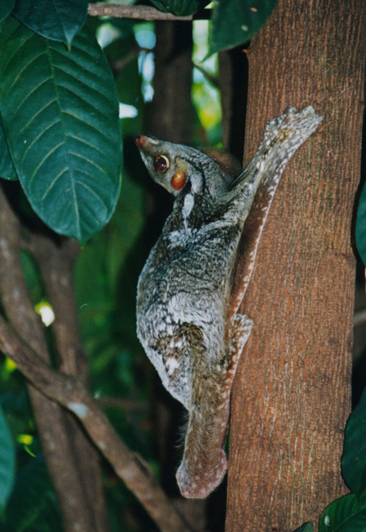 Cynocephalus variegatus. Colugo is the other name. And kaguan. Malayan flying lemur.